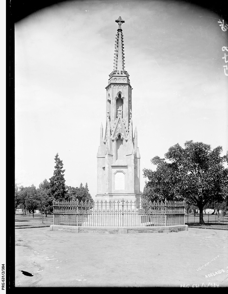 Colonel Light Monument, Light Square. The monument on Colonel Light's grave was demolished in 1904. It was designed by Sir George Strickland Kingston.